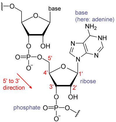 Chemical structure of RNA